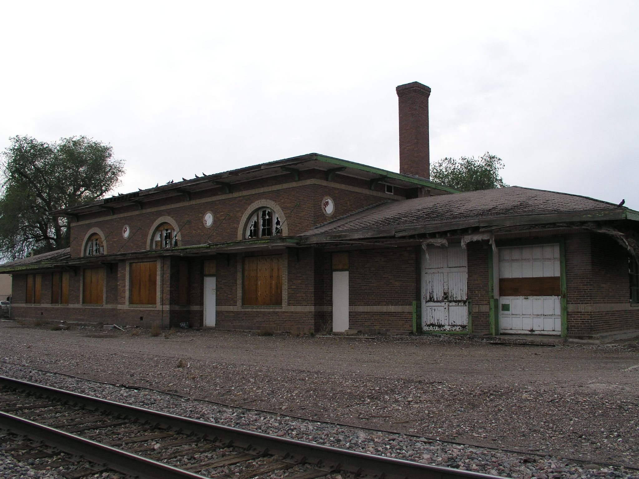 The south side of the former Northern Pacific Railway Depot building, 500 Pacific Avenue, Miles City, Montana.